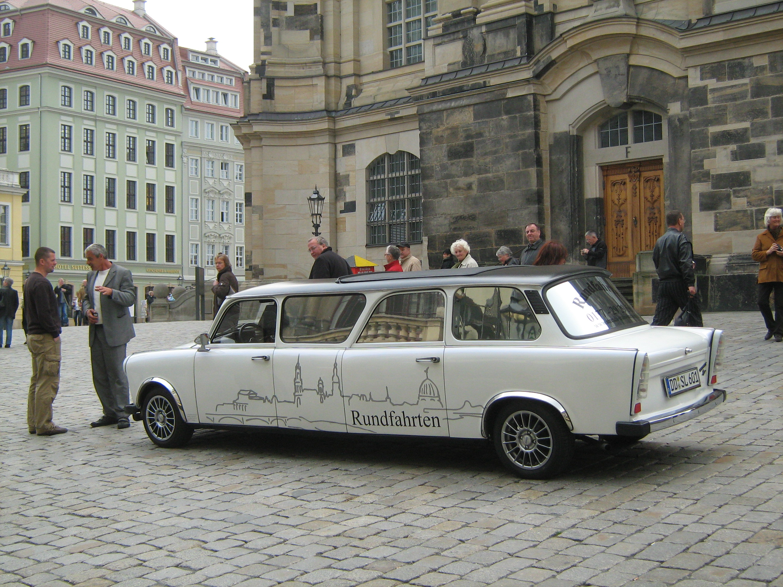 Trabant stretch limo in front of the Frauenkirche in Dresden. September 2008.